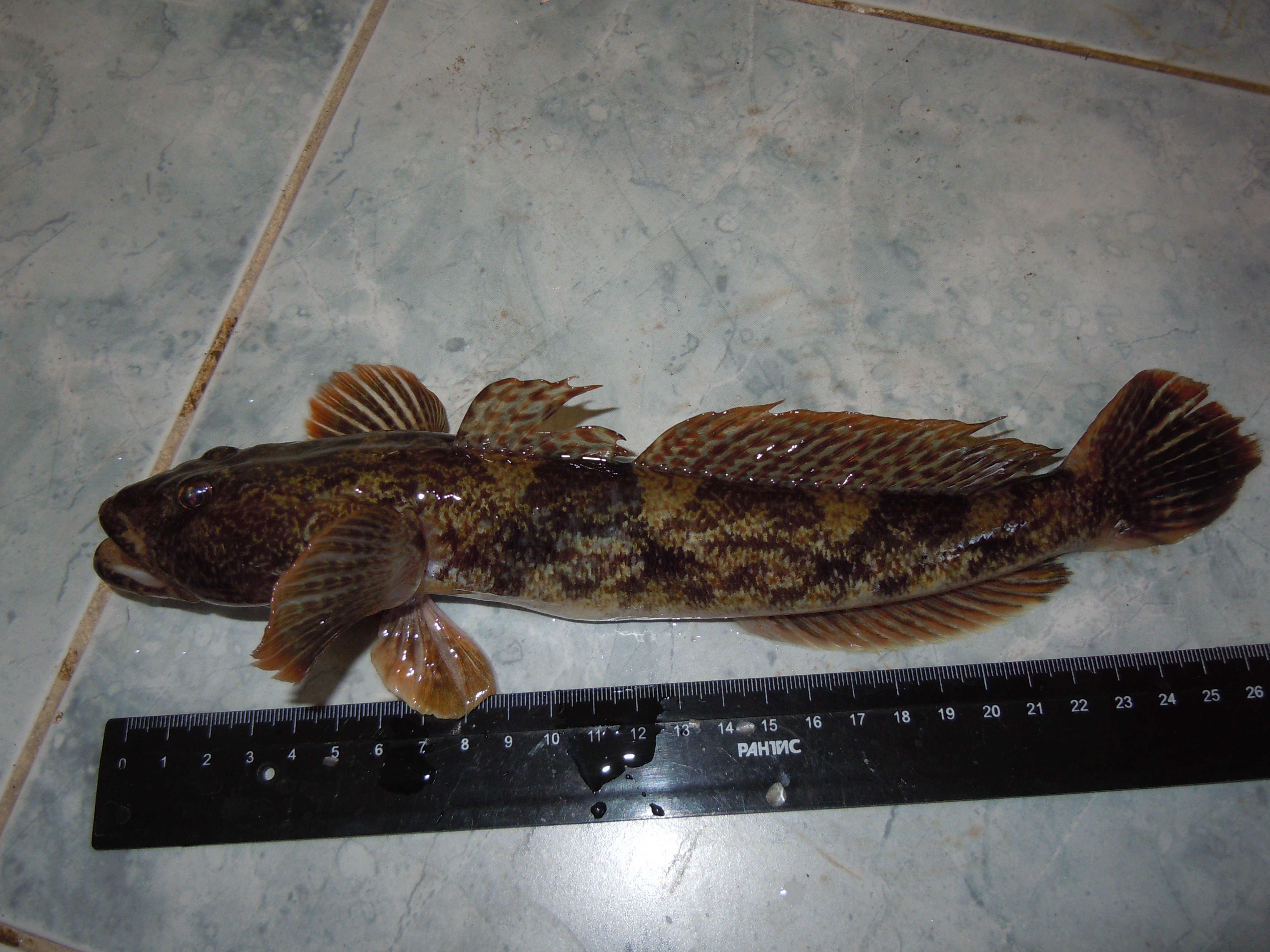 Mean size of the toad goby. Gelendzhik, Russian Caucasus.